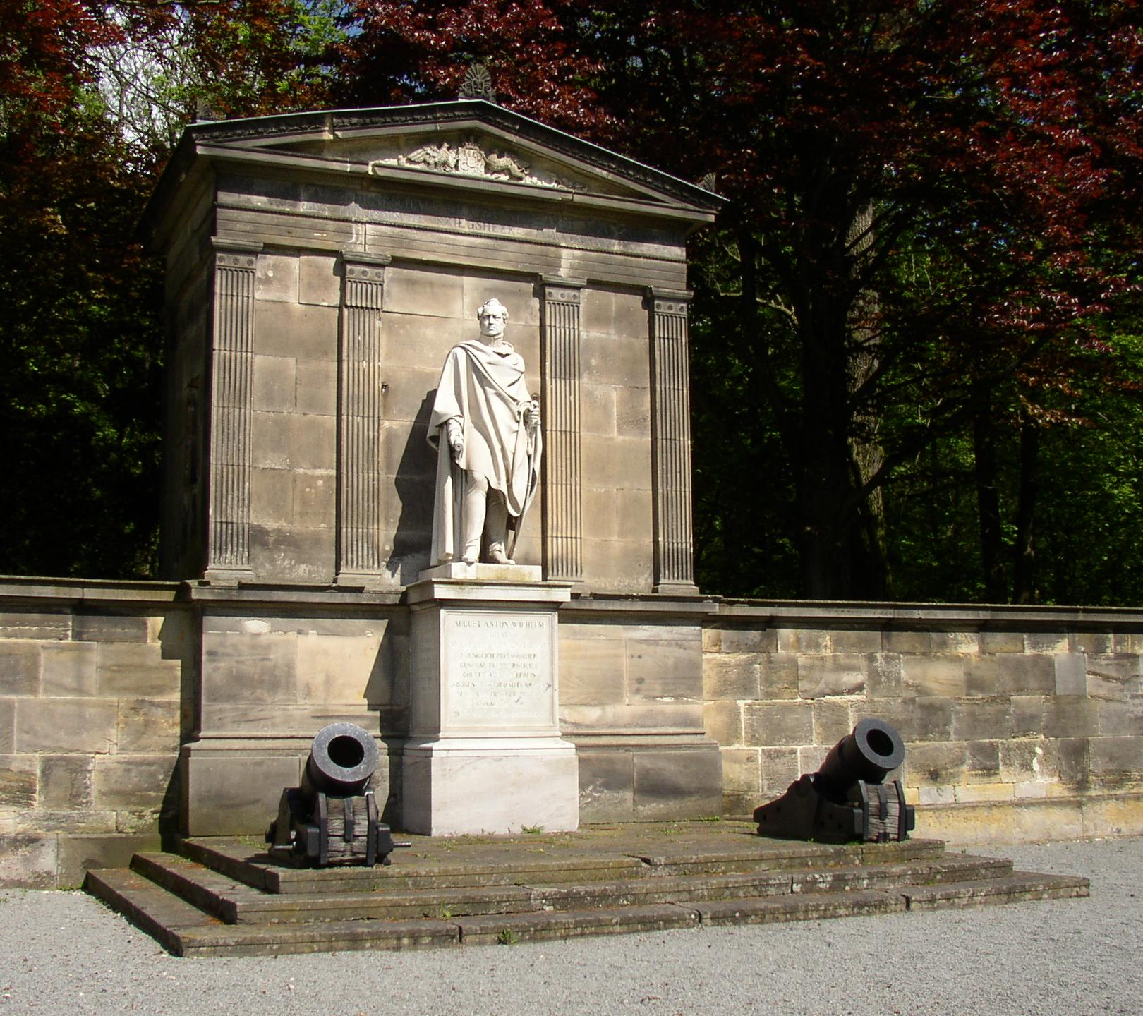 Gneisenau memorial in Sommersdorf-Sommerschenburg in Saxony-Anhalt, Germany, sculpted by Christian Daniel Rauch